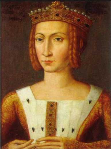 Portrait of Margaret III, Countess of Flanders, wife of Philip II, Duke of Burgundy